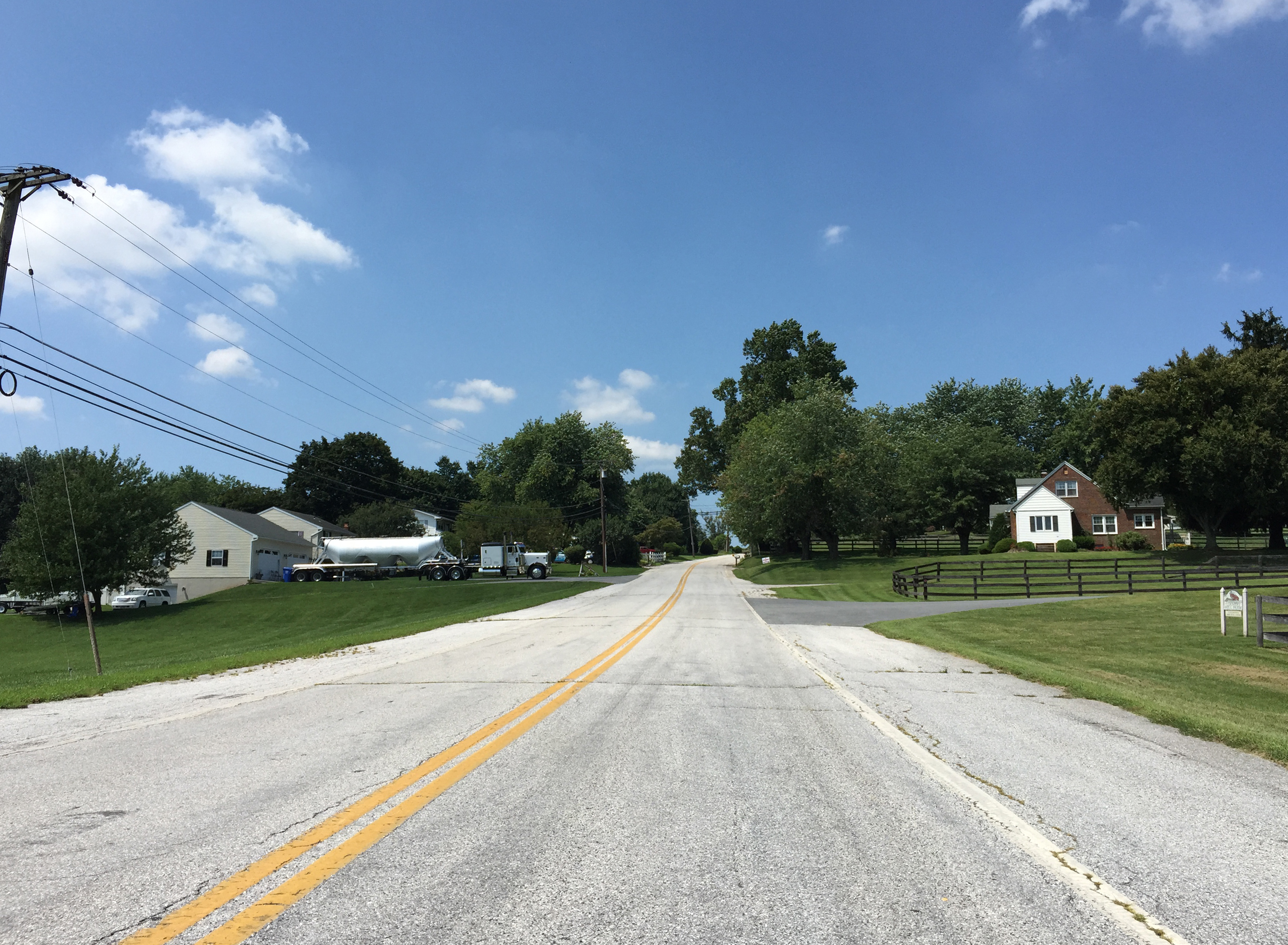 View west along Maryland State Route 849 (Leisters Church Road) at Maryland State Route 482 (Hampstead Mexico Road) in Mexico, Carroll County, Maryland